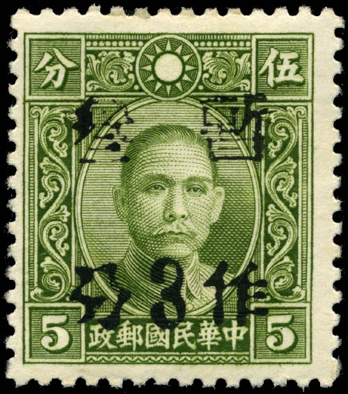 China 3-cent Kansu overprint stamp of 1940